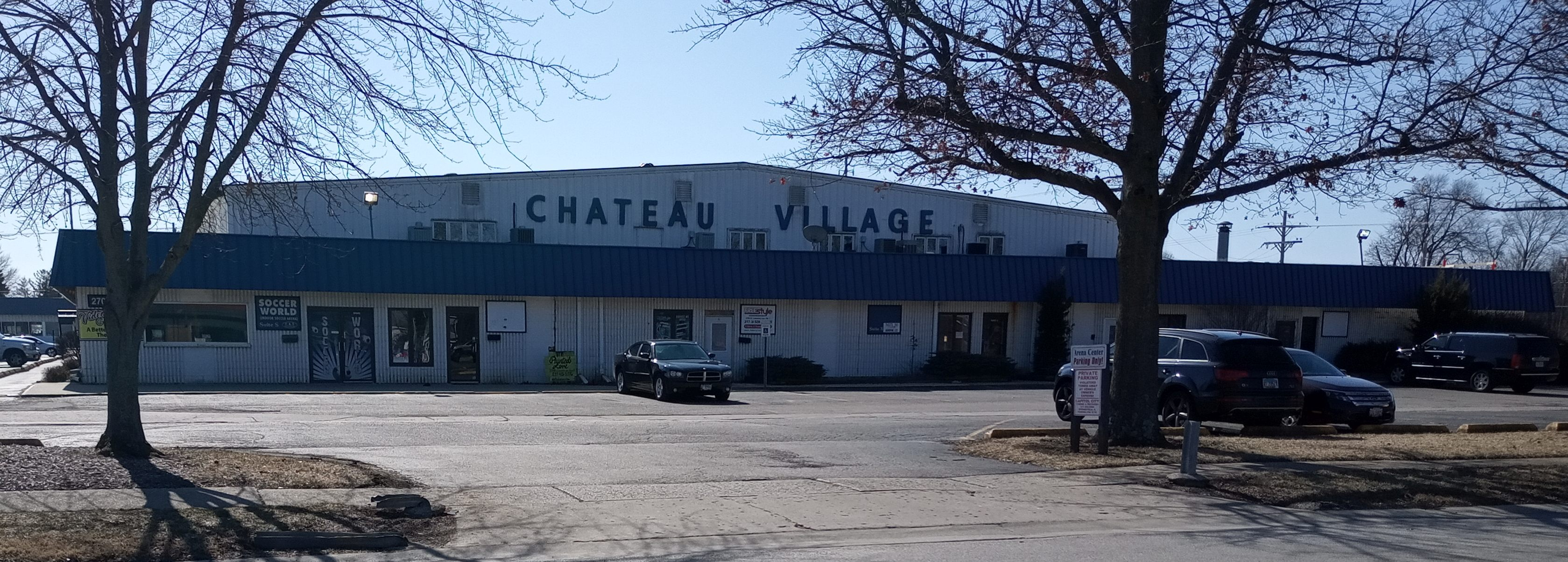 View from north toward the Chateau Village building in western Springfield at the intersection of Lawrence and Veterans Parkway, formerly the site of the Ice Chateau hockey and skating venue, which is now an indoor soccer facility.